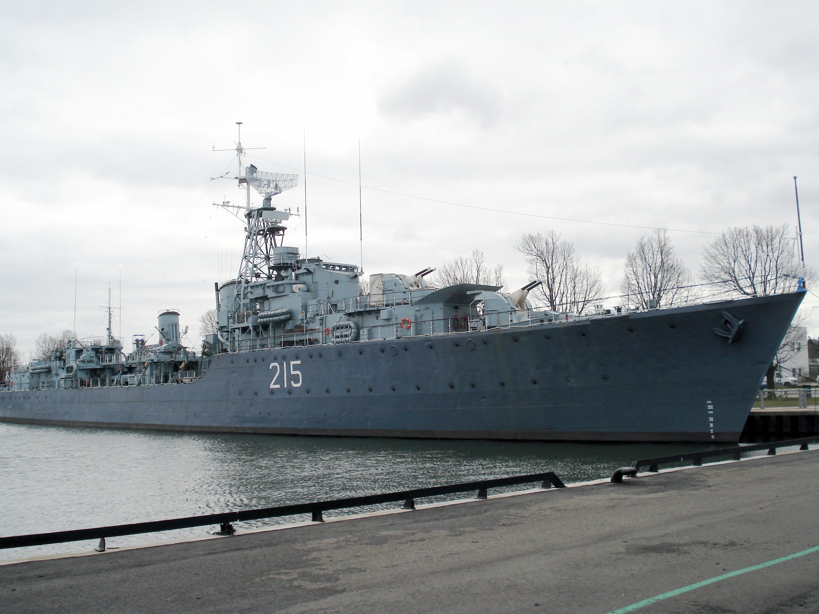 Destroyer HMCS Haida moored as museum ship at Hamilton, Ontario. Photo taken on December 2, 2006. Source: Photo by me, User:Balcer.